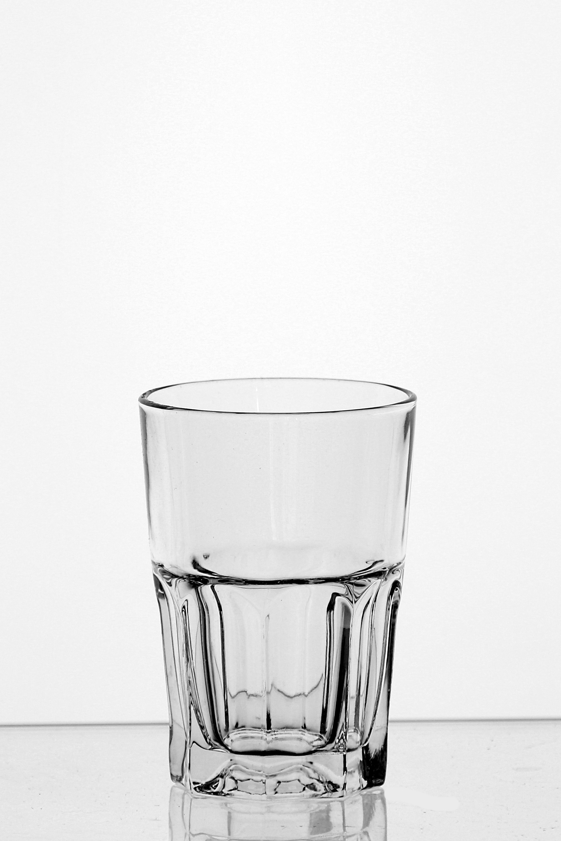 Cocktail glass.